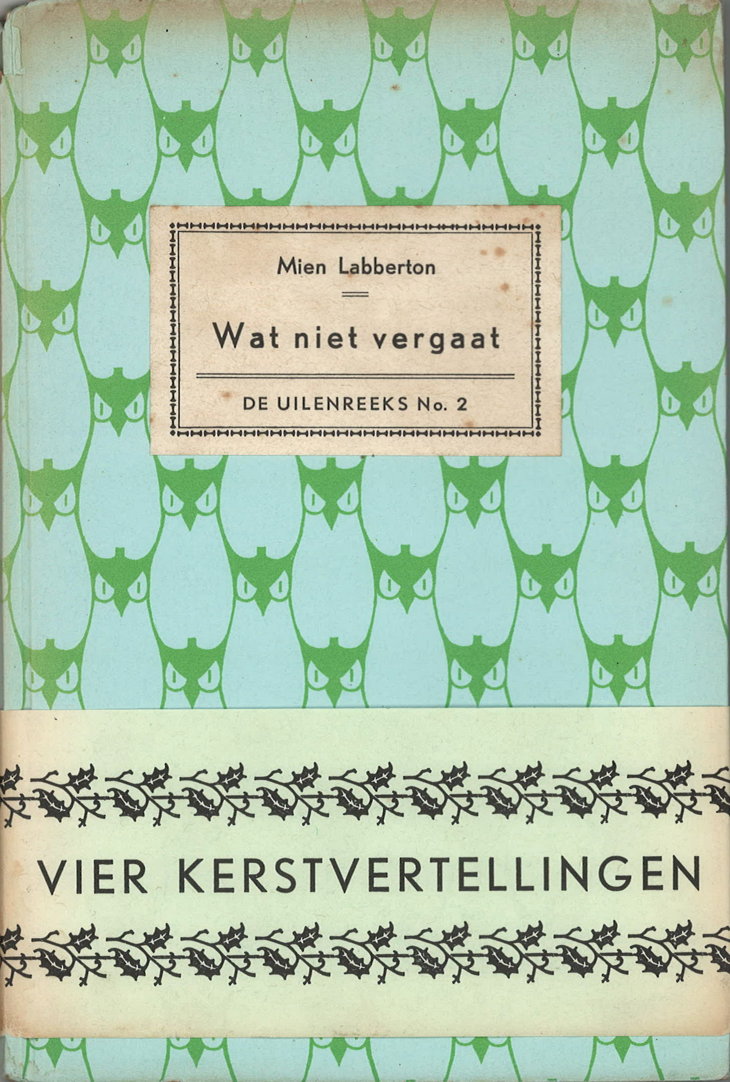 Front cover of the De Uilenreeks series No. 28 with envelope stripes (Nederlands, 1934)